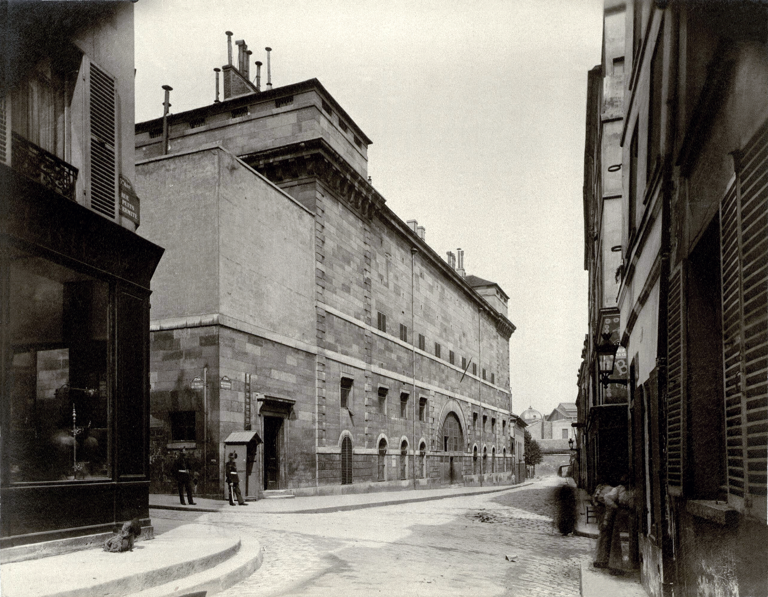 The main facade of the Sainte-Pélagie Prison in Paris 5th arrondissement. The prison was demolished in 1899, May. Positive albumen photograph from glass negative gelatinobromure.